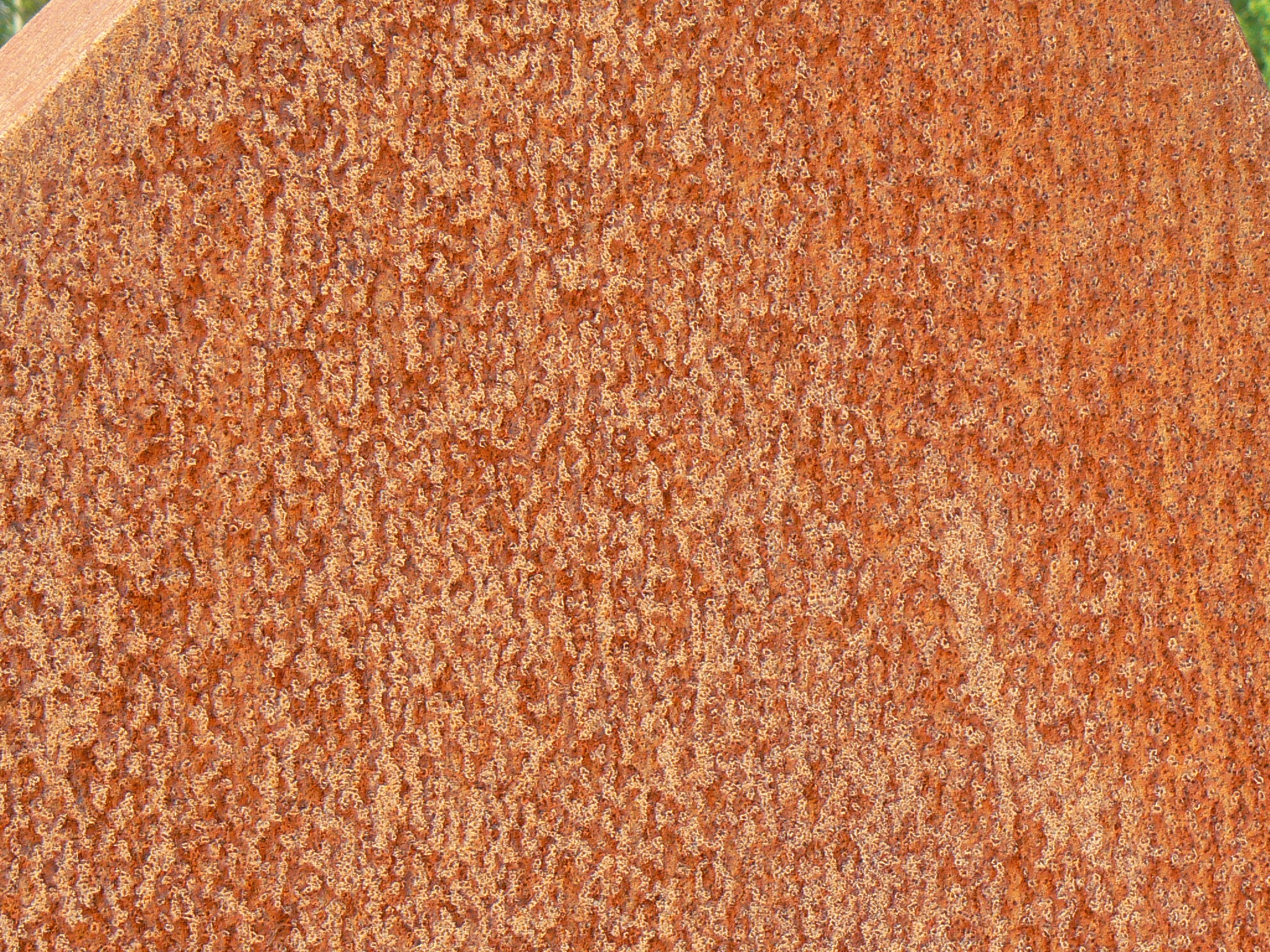 description=corrosion on cortensteel sculpture after 2 years source=own photo date=April 22, 2007 author=K. Siereveld